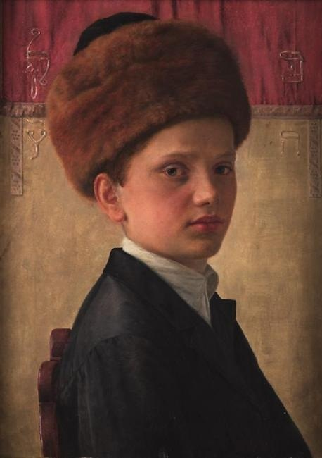 Portrait of a yeshiva boy wearing a streimel, in front of a Torah ark curtain (Eduard, the artist’s son)